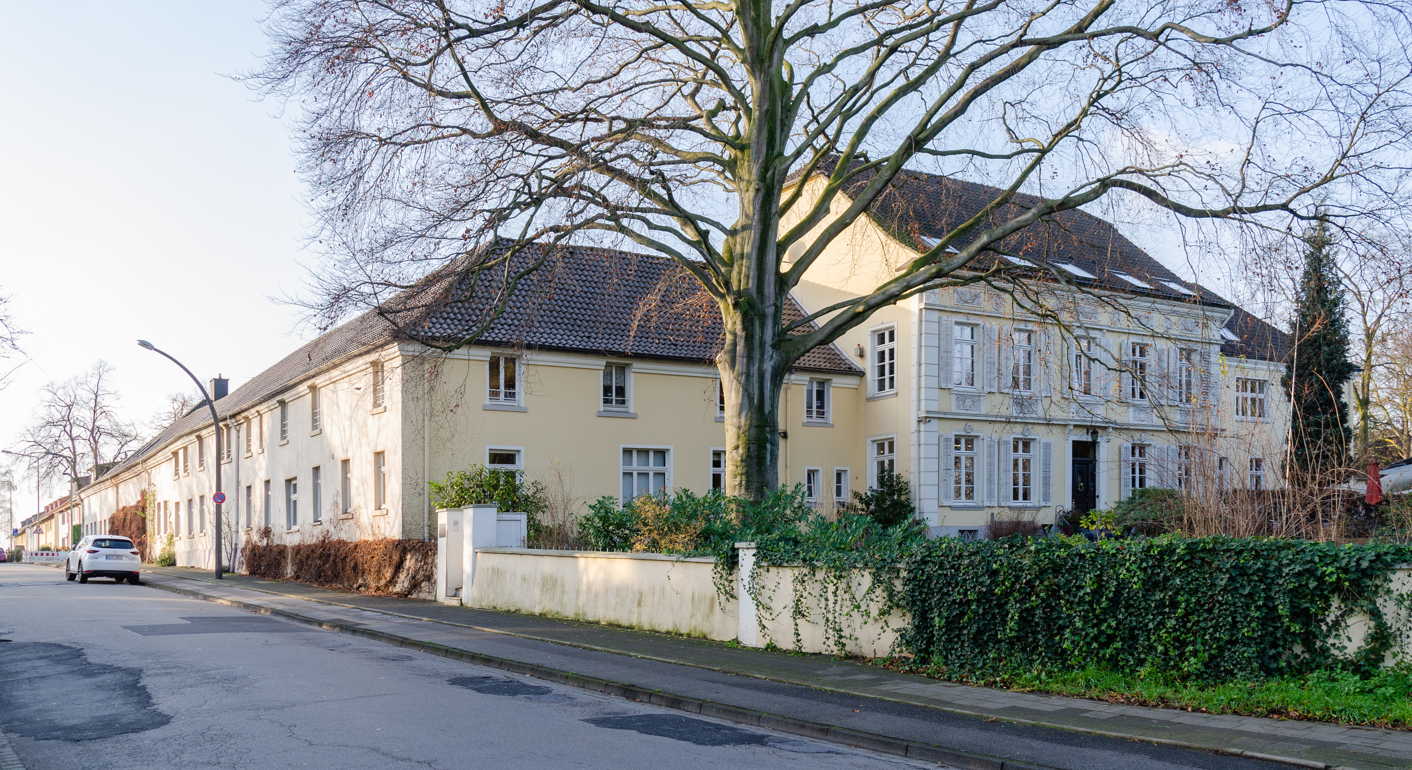 Duisburg (North Rhine-Westphalia, Germany) – borough Rheinhausen, district Bergheim – historic farmstead called Schauenhof – view from the east with the manor